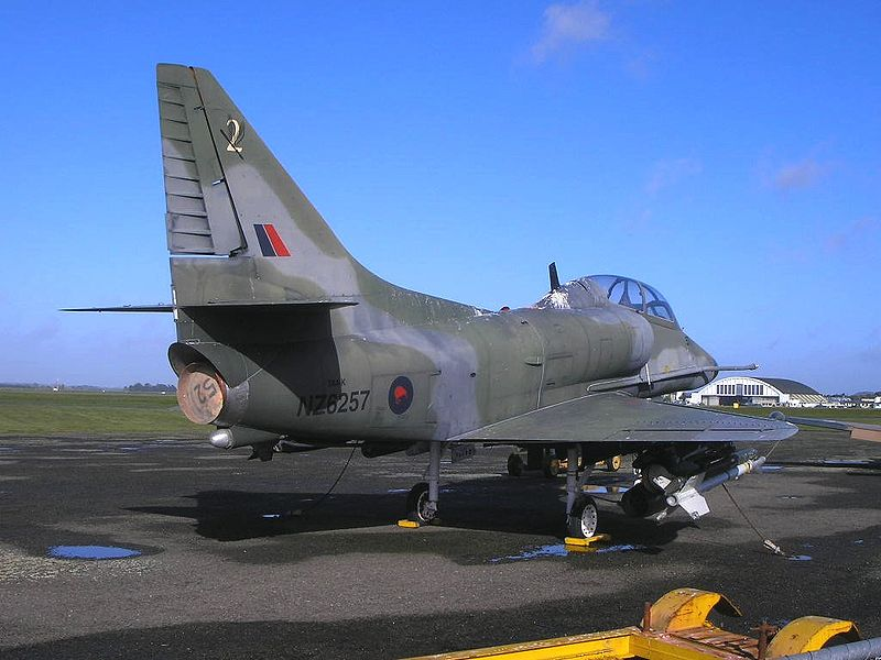 A McDonnell Douglas TA-4K Skyhawk (NZ6257) in the colours of No. 2 Squadron RNZAF at the Ohakea wing of the Royal New Zealand Air Force Museum in 2006. This aircraft actually never flew and was never assigned the serial "NZ6257", it is a display built from parts of other RNZAF Skyhawks.